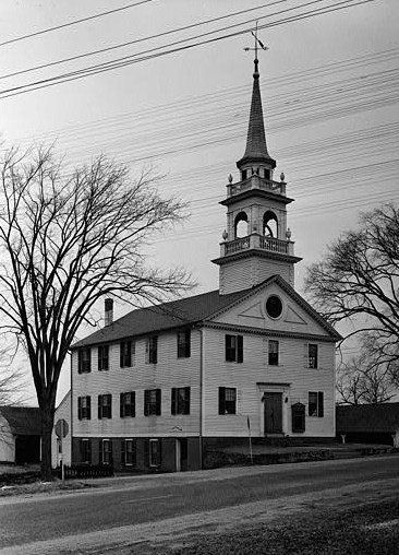 Old Church, Preston City (New London County, Connecticut) cropped This file comes from the Historic American Buildings Survey (HABS), Historic American Engineering Record (HAER) or Historic American Landscapes Survey (HALS). These are programs of the National Park Service established for the purpose of documenting historic places. Records consist of measured drawings, archival photographs, and written reports. When reusing please credit: Library of Congress, Prints & Photographs Division, CONN,6-PRET,3-2 This tag does not indicate the copyright status of the attached work. A normal copyright tag is still required. See Commons:Licensing for more information. This work is in the public domain in the United States because it is a work prepared by an officer or employee of the United States Government as part of that person’s official duties under the terms of Title 17, Chapter 1, Section 105 of the US Code. See Copyright. Note: This only applies to original works of the Federal Government and not to the work of any individual U.S. state, territory, commonwealth, county, municipality, or any other subdivision. This template also does not apply to postage stamp designs published by the United States Postal Service since 1978. (See § 313.6(C)(1) of Compendium of U.S. Copyright Office Practices). It also does not apply to certain US coins; see The US Mint Terms of Use. This file has been identified as being free of known restrictions under copyright law, including all related and neighboring rights. Object location41° 31′ 38″ N, 71° 58′ 33″ W